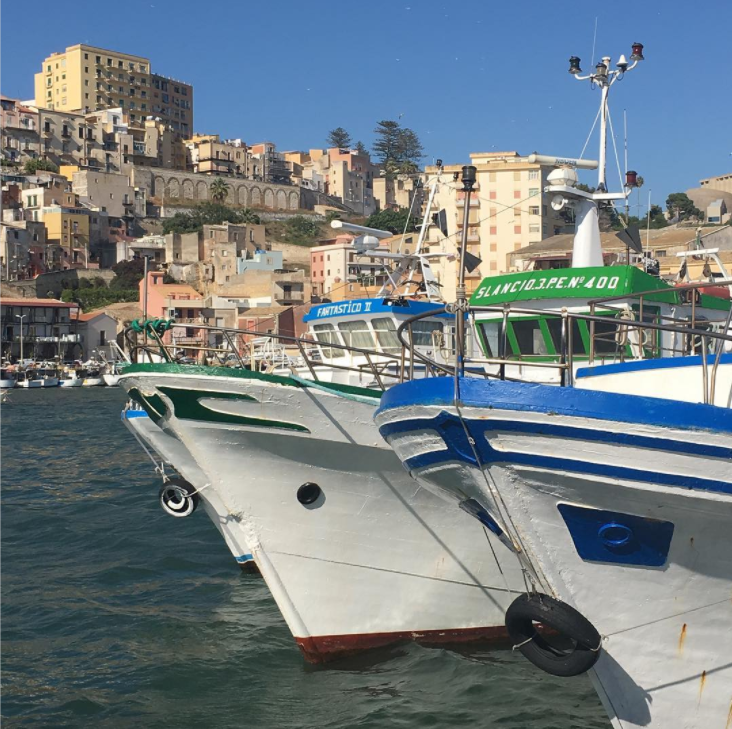 Porto di Sciacca